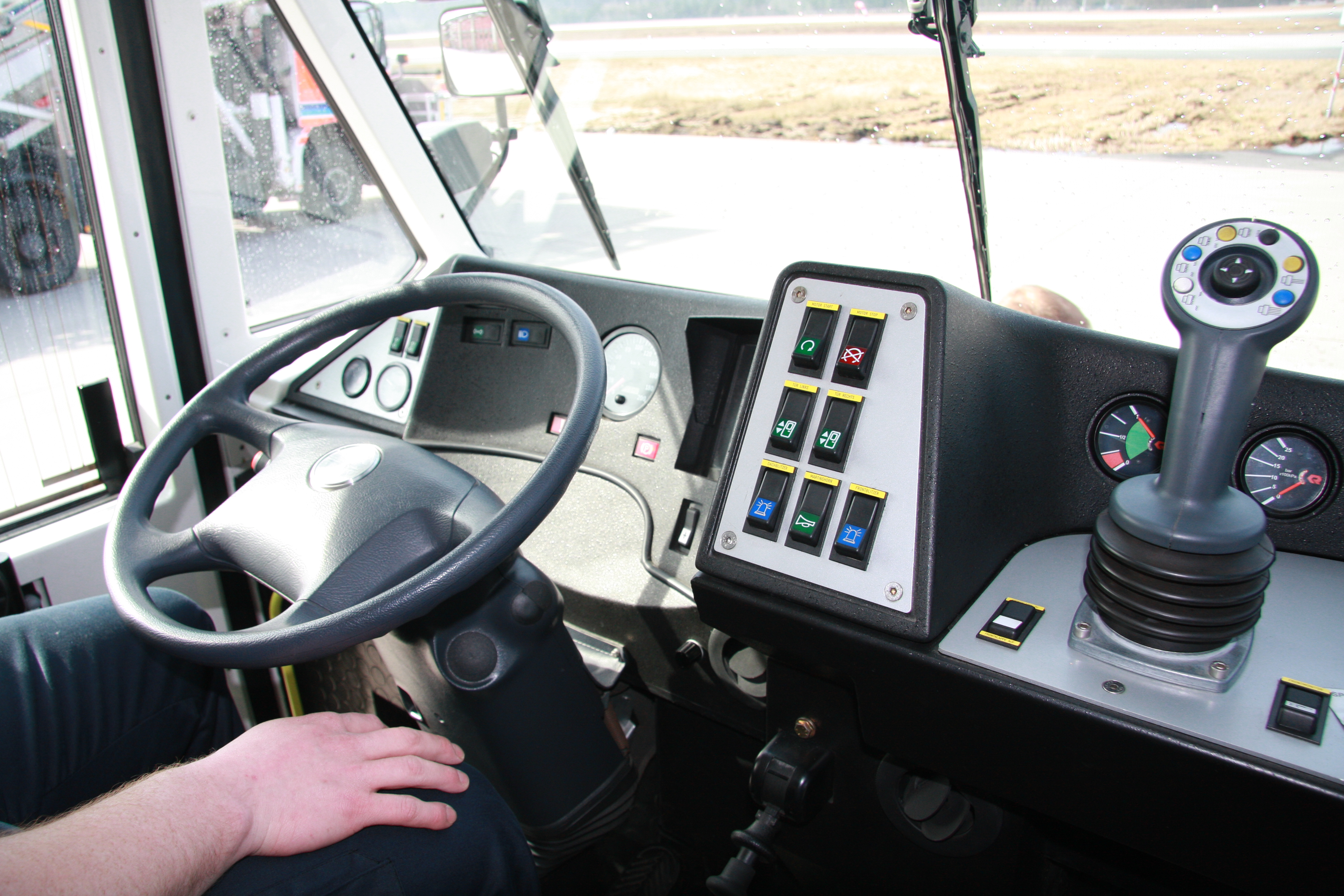 The driver's seat of the Airport crash tender type Rosenbauer Simba 8x8 belonging to the Aircraft Rescue and Firefighting at Frankfurt Airport